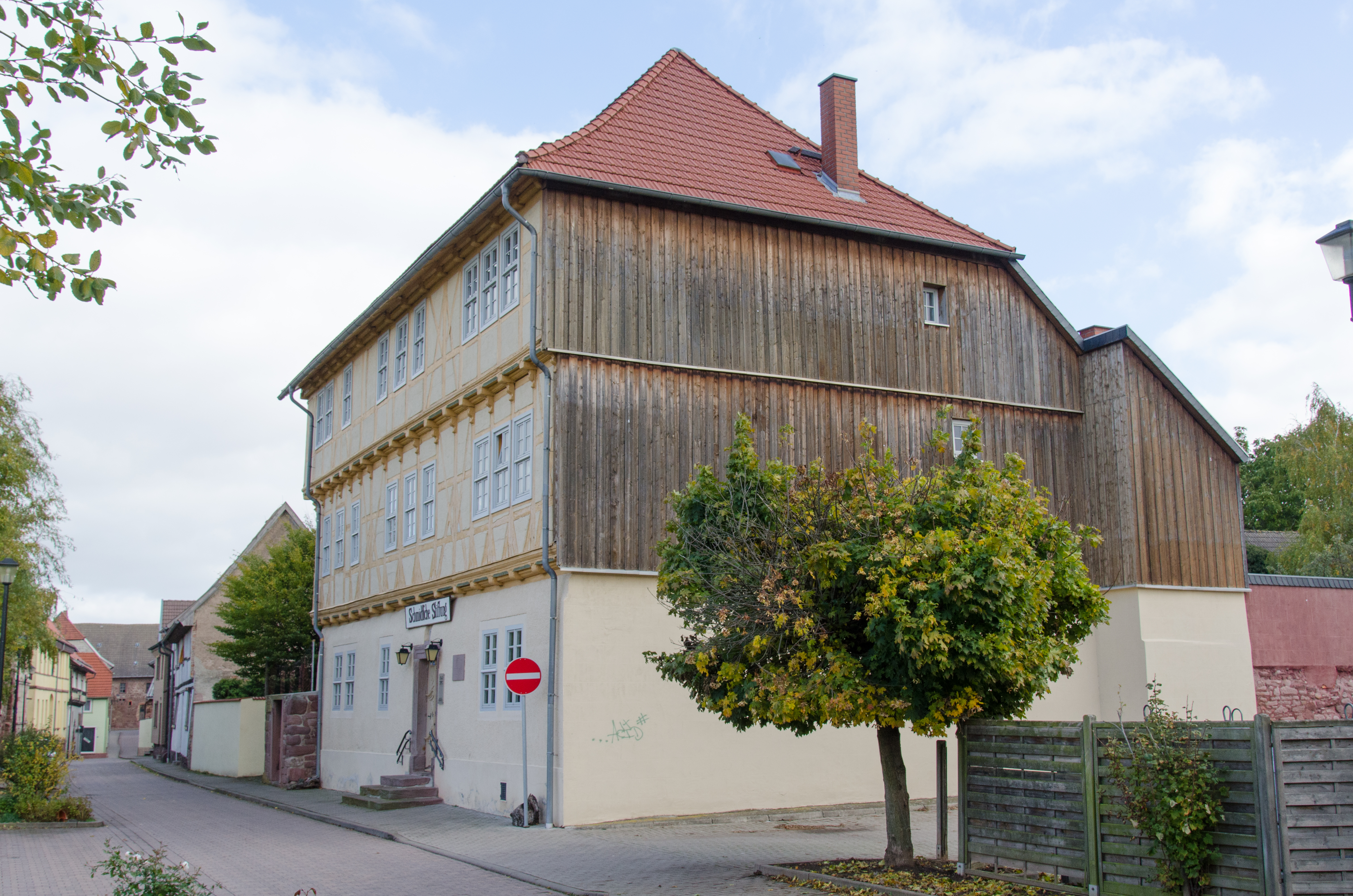 Kelbra, Thomas